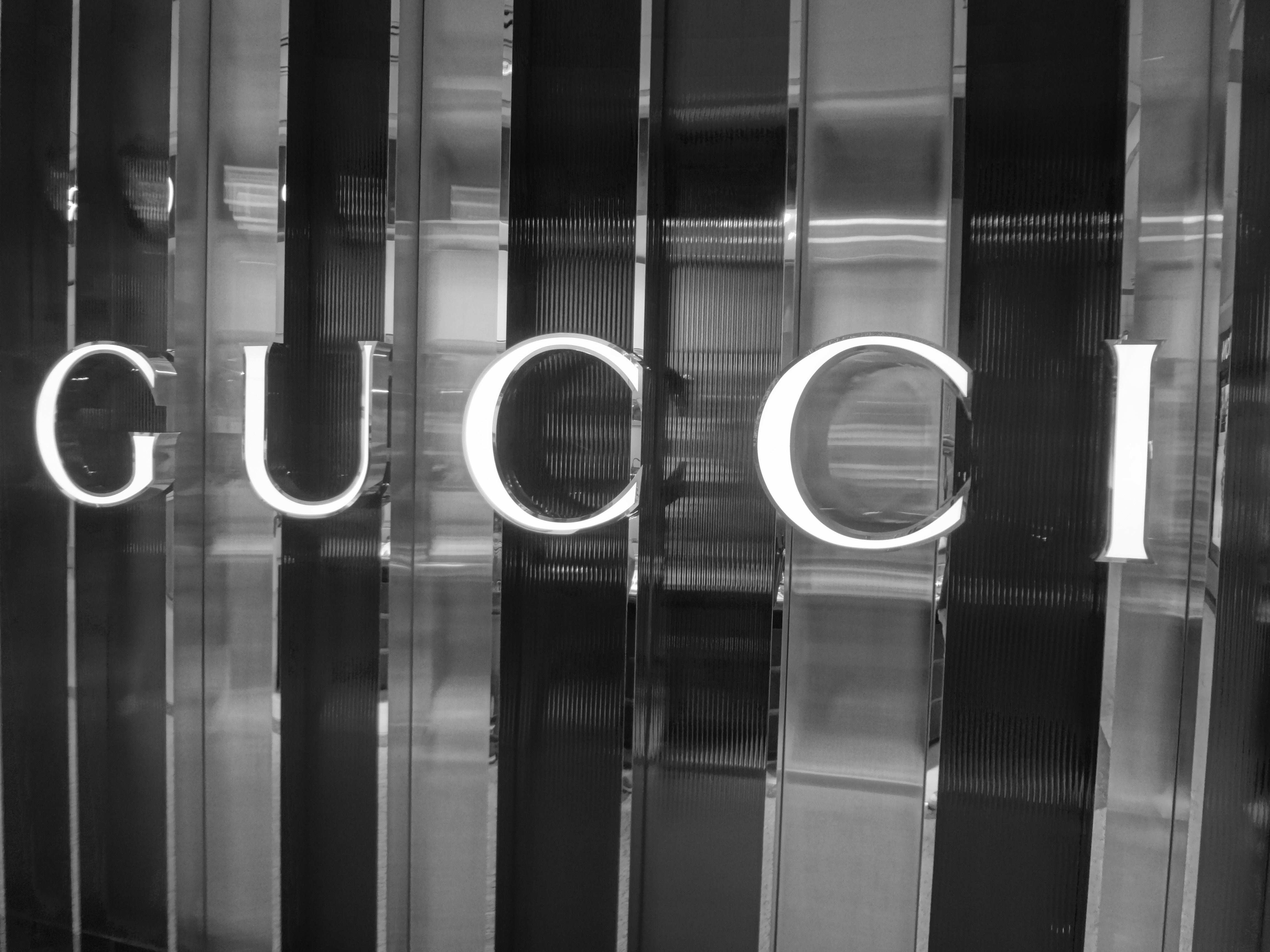 Photography by David Adam Kess GUCCI MADRID